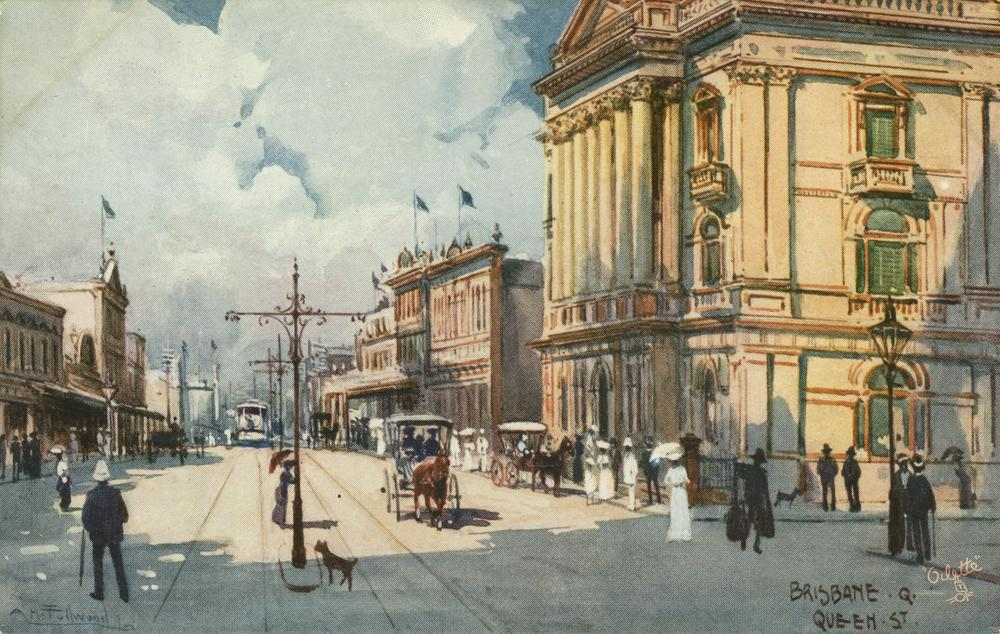 View of Queen Street, Brisbane, ca. 1895. View shows pedestrians, trams and horsedrawn vehicles in bustling Queen Street. Flags are flying from several flagpoles on top of buildings on both sides of the street and a gaslight can be seen on the right foreground.